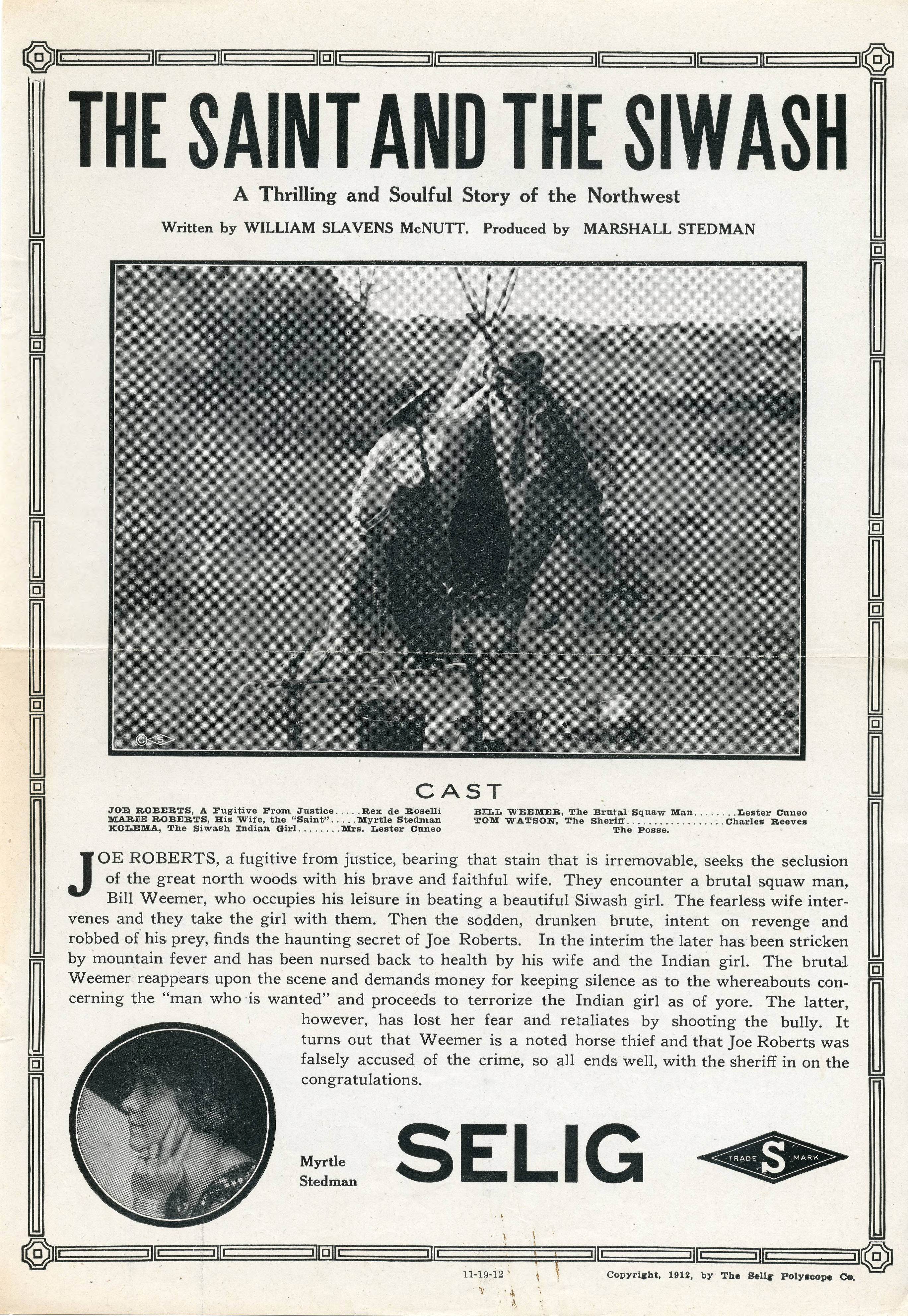 Release flier for THE SAINT AND THE SIWASH, 1912